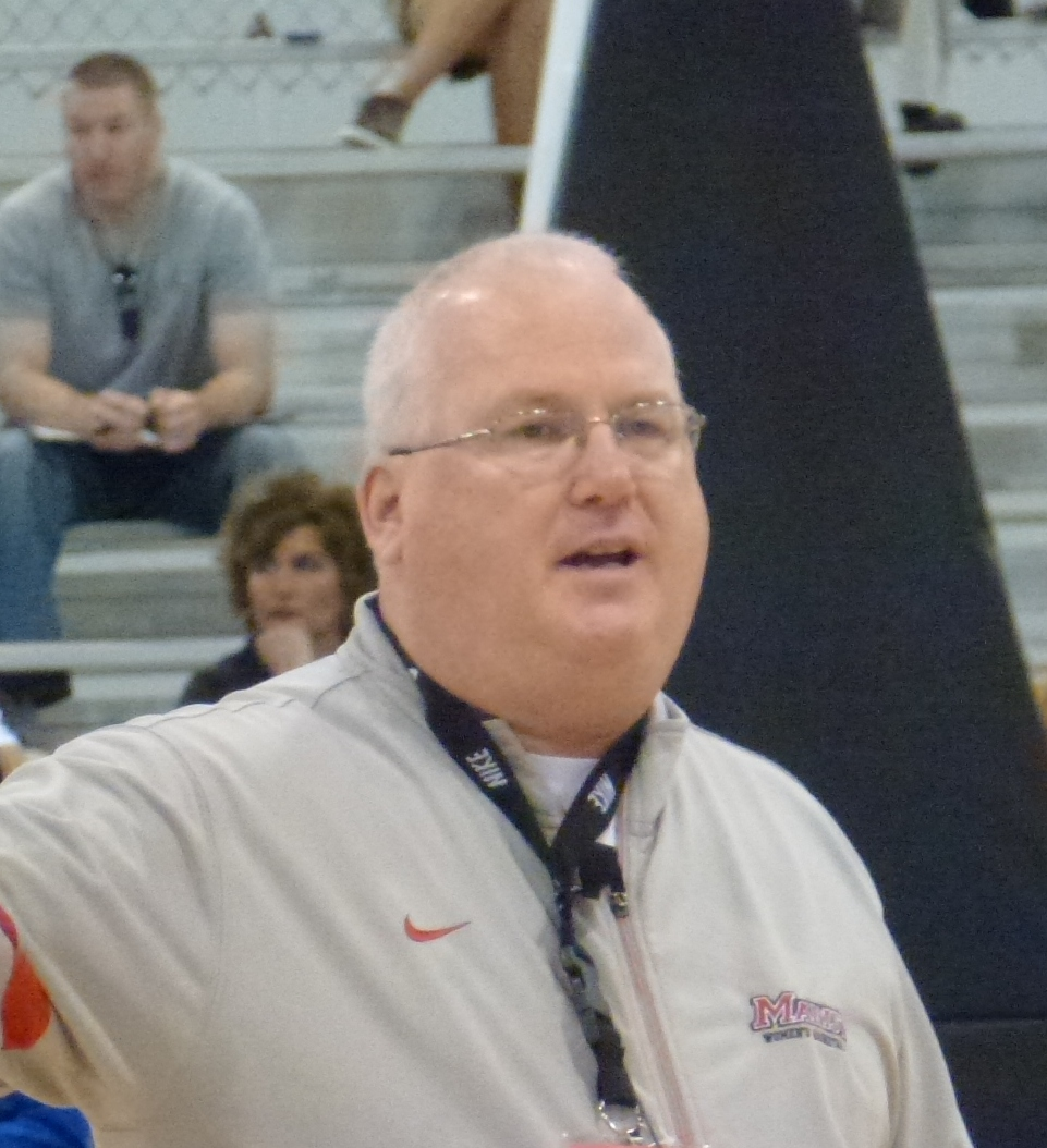 Brian Giorgis, head coach of the Marist women's basketball team. Taken at the 2012 WBCA Convention in Denver Colorado, where he was giving an on-court presentation.